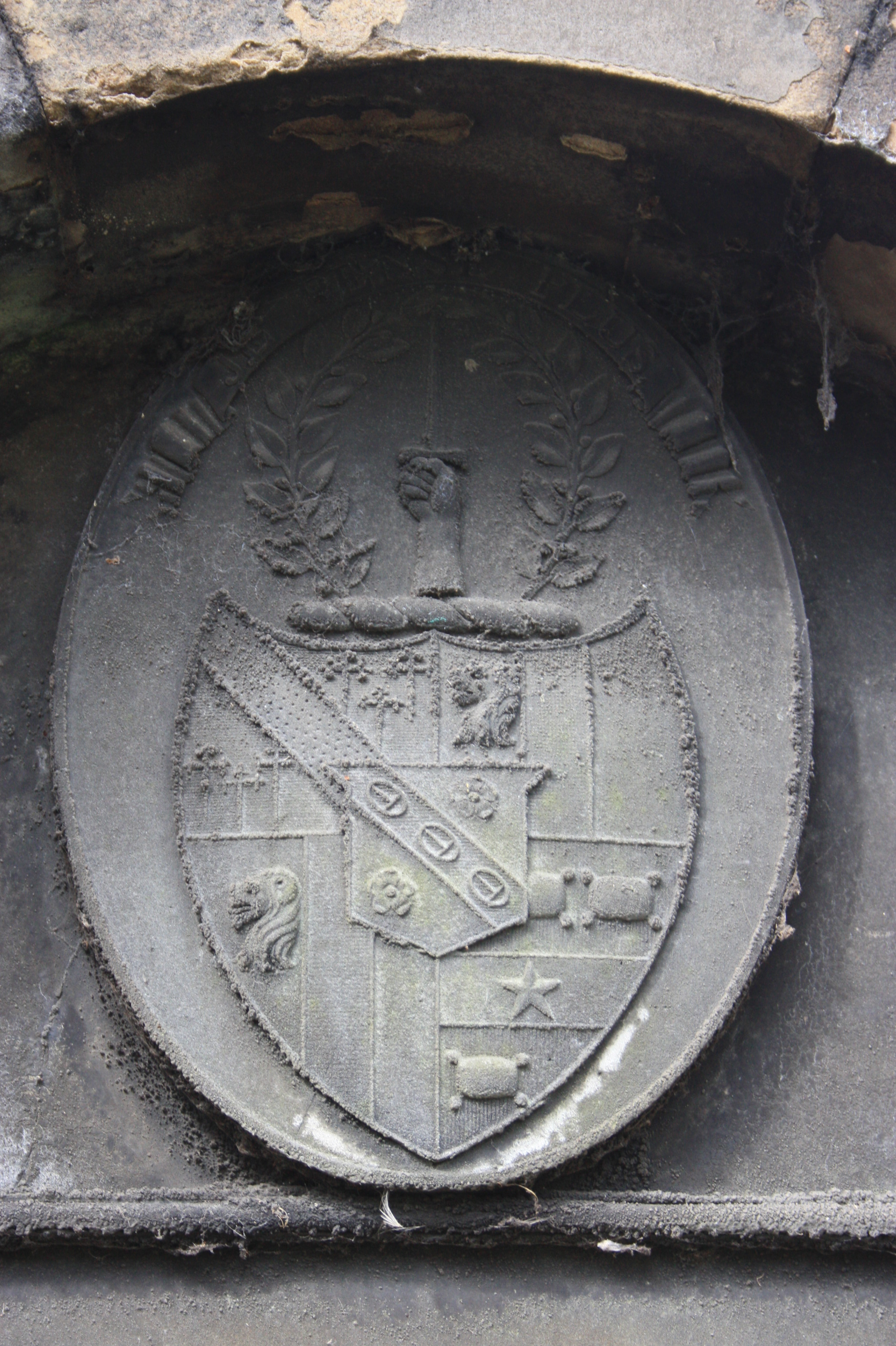 The family crest of James Erskine, Lord Alva